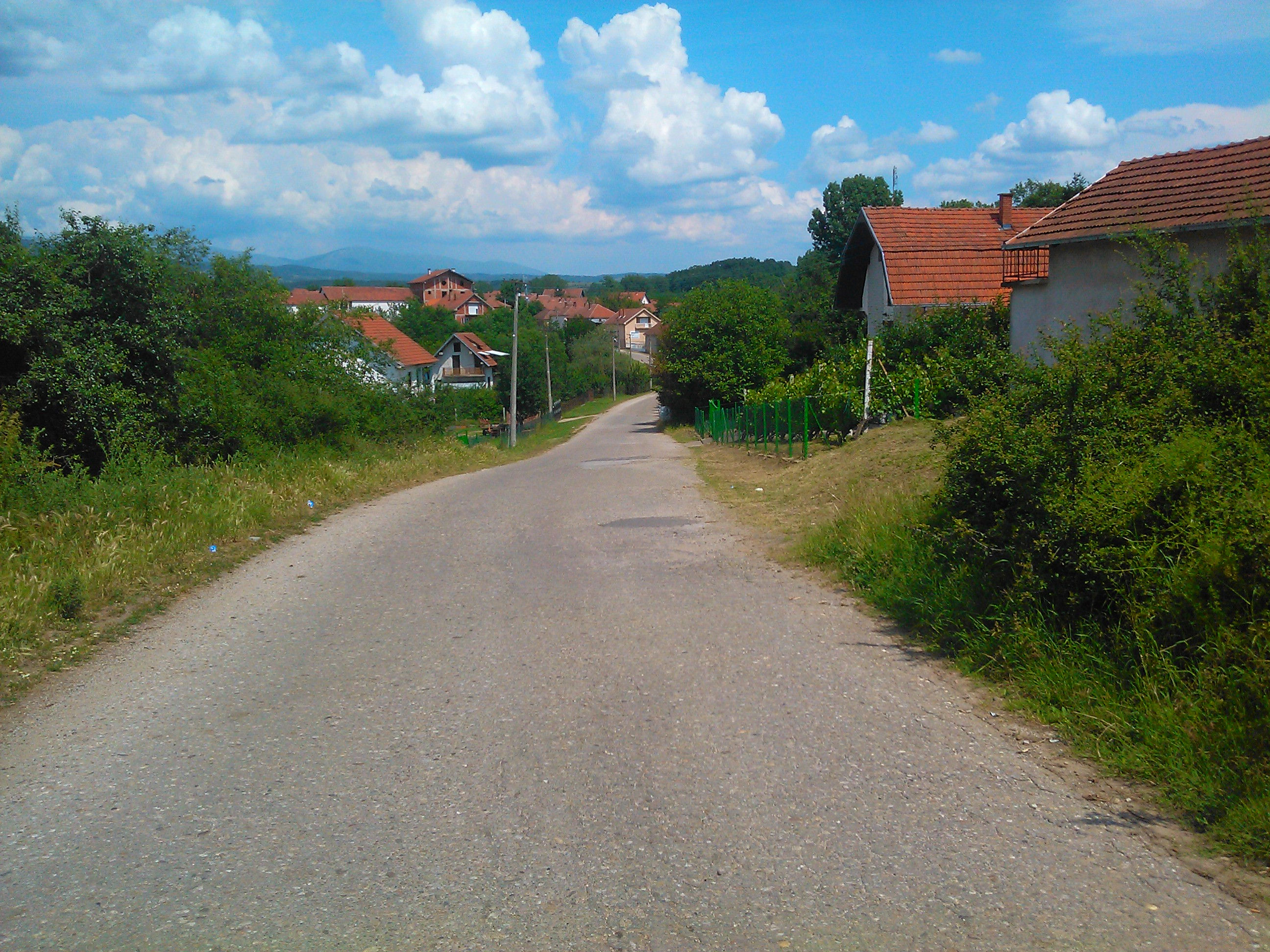 Selo Zlokućane 1